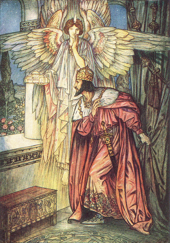 A book illustration of an angel shows a model of Hagia Sofia to Justinian in a vision. The cathedral had burnt down during a riot; now Justinian would build an even more beautiful one.